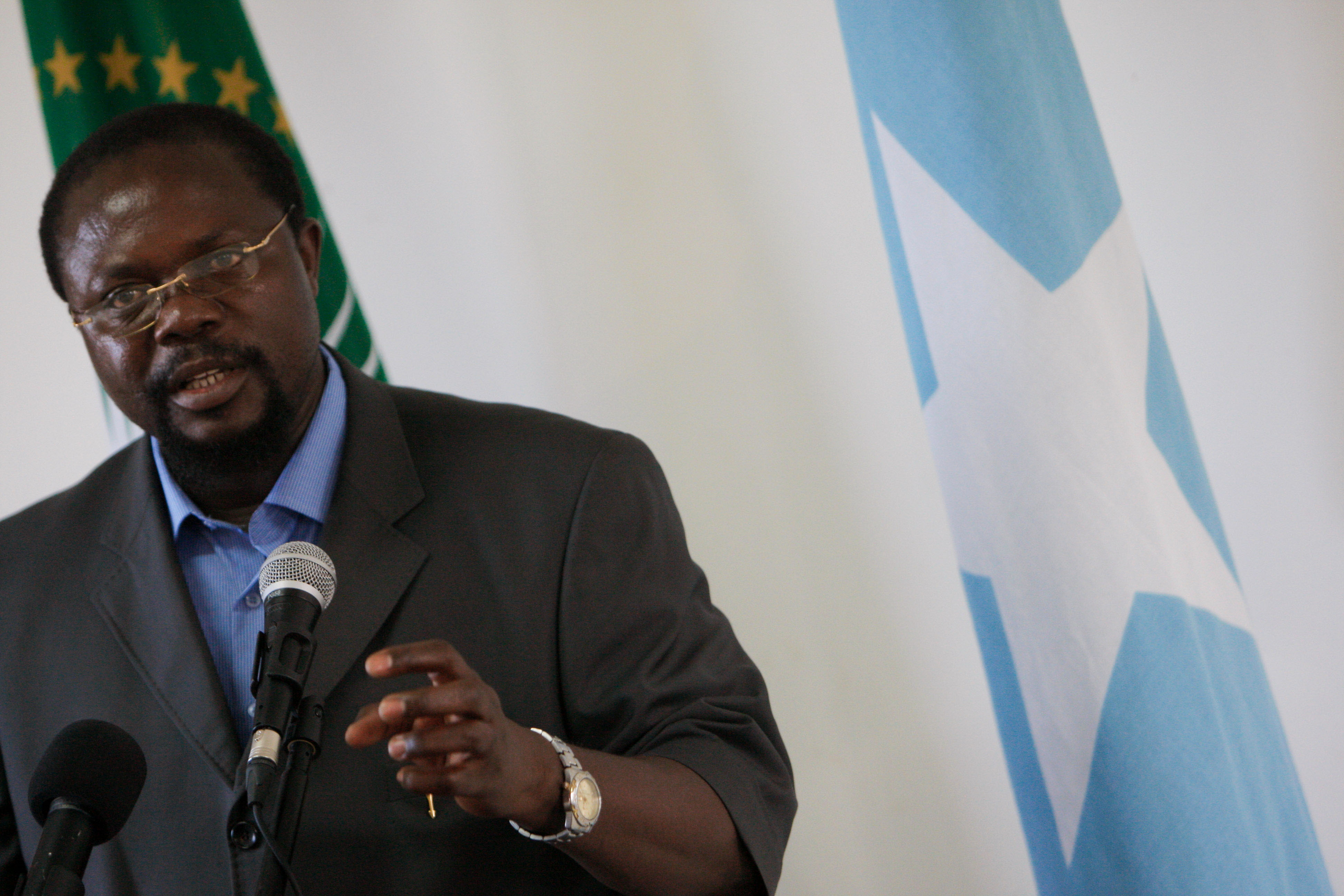 Wafula Wamunyinyi, the African Union Mission in Somalia (AMISOM) Deputy Special Representative of the Chairperson of the African Union Commission (DSRCC) for Somalia, gestures during a press conference 26 April at the mission's headquarters in the Somali capital Mogadishu. DRSCC Wamunyinyi said that the African Union would not tolerate any 'spoilers' of the on-going process to establish a new constitution for Somalia when the current mandate of the Transitional Federal Government (TFG) ends in August of this year. AU-UN IST PHOTO / STUART PRICE.